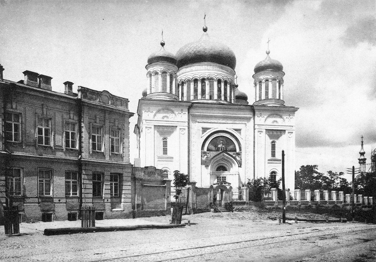 Church of the Tithes in Kiev, Russian Empire